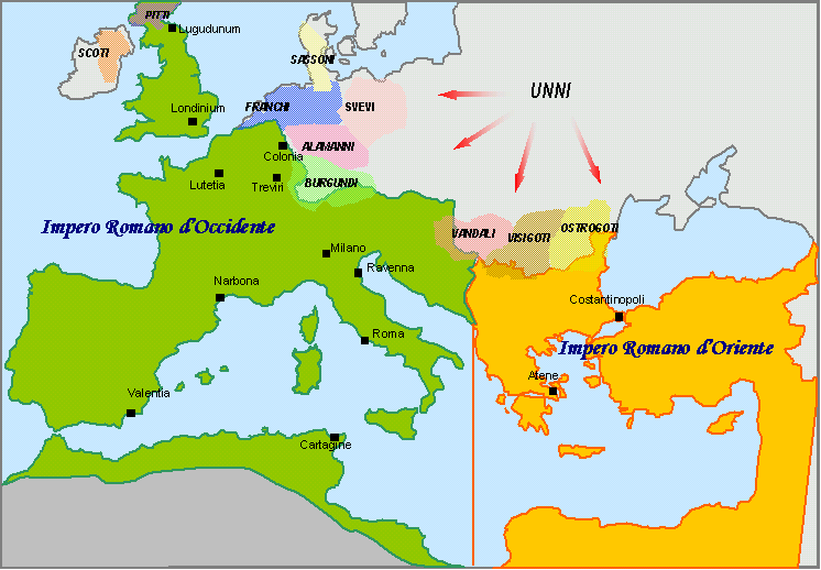 Map of Roman Empire in 395 d.C.